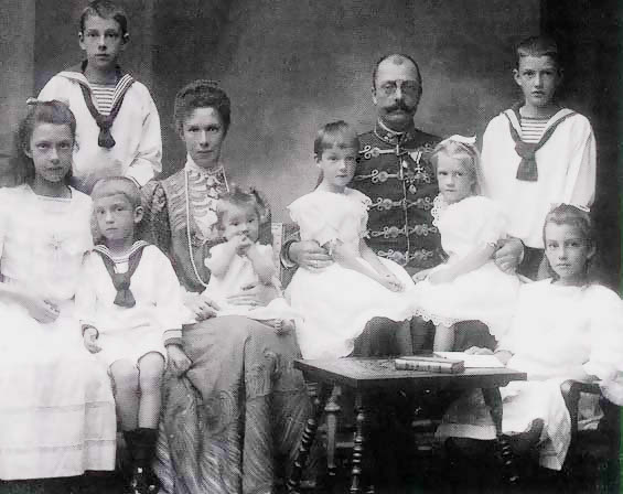 Archduchesse Maria Valeria of Austria, with her husband Archduke Franz Salvator of Österreich-Toscana and children